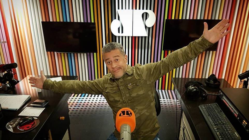 Batista na Jovem Pan em 2017